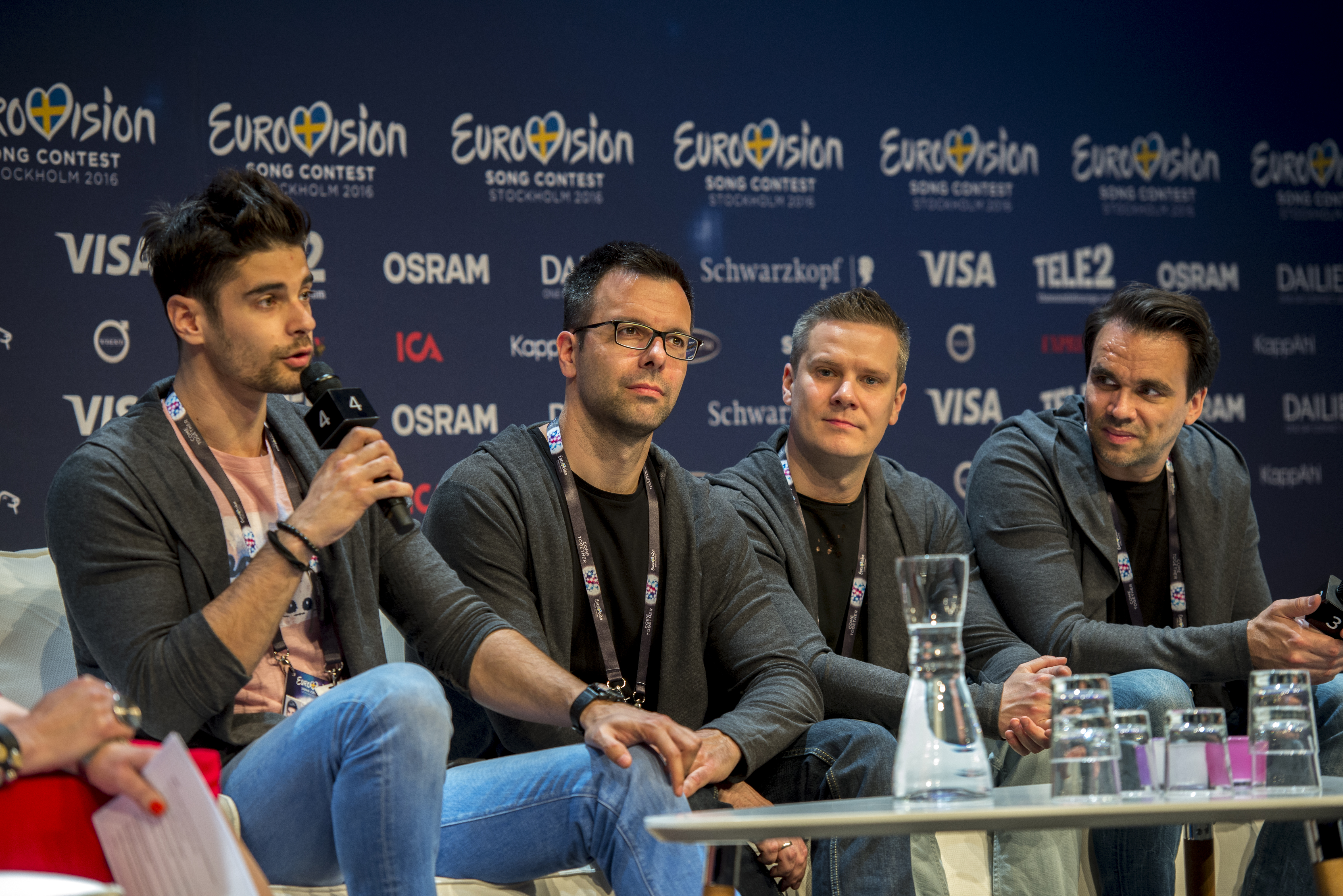 Freddie at a Meet & Greet during the Eurovision Song Contest 2016 in Stockholm. (Help translate this text)